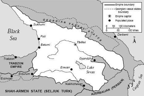 The Georgian Empire of Queen Tamar, ca. 1200. Based on information from Kalistrat Salia, History of the Georgian Nation, Paris, 1983, 182-83.